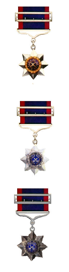 India Order of Merit